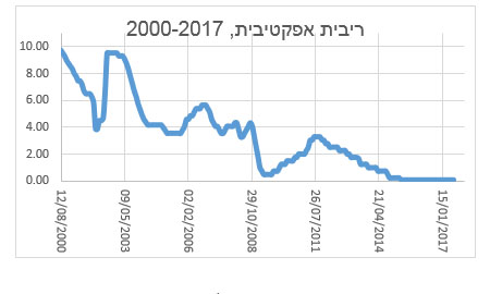 effective interest